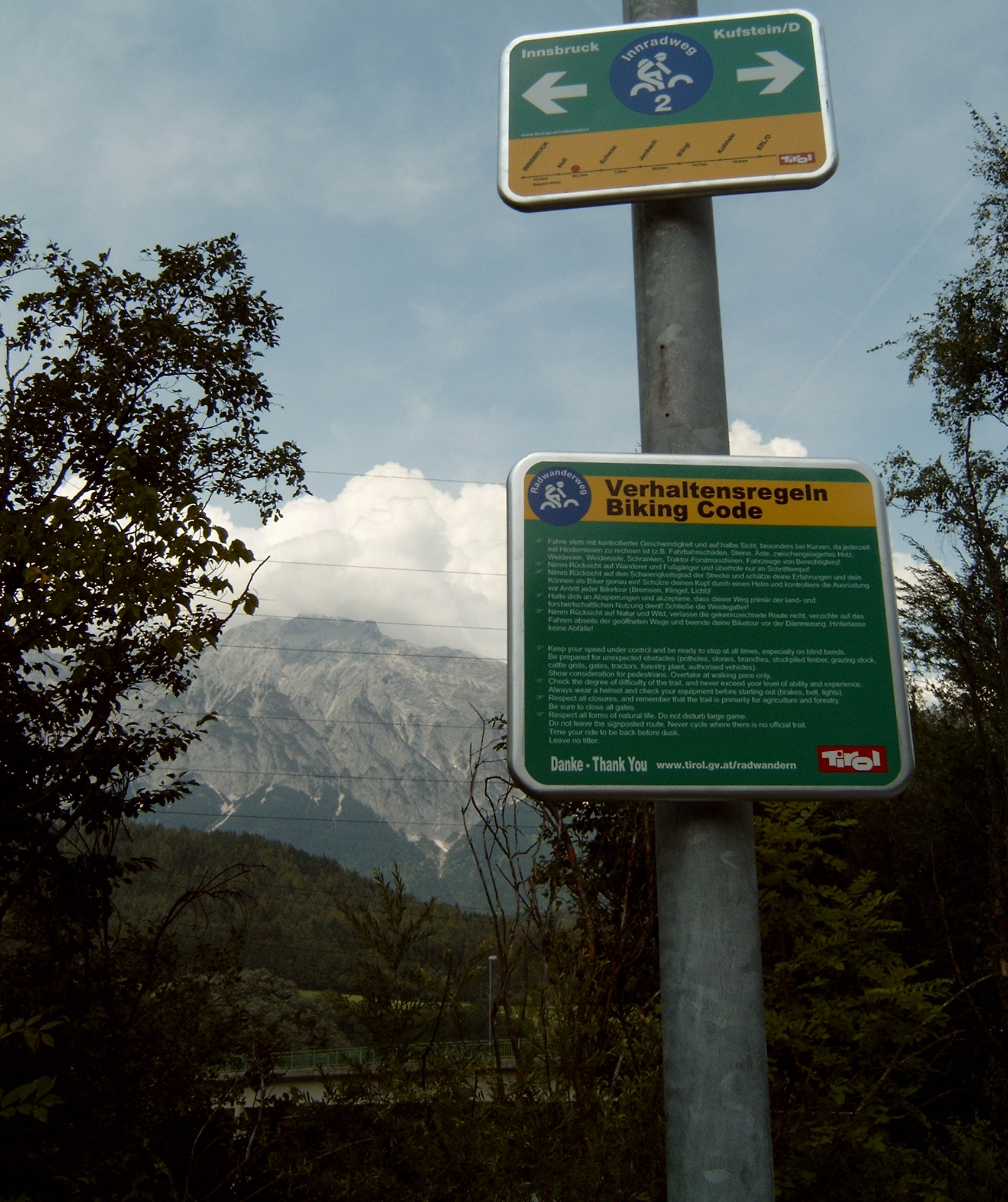 "Innradweg" (cycleway along river "Inn"), signposting in Tyrol/Austria between towns "Hall" and "Schwaz"